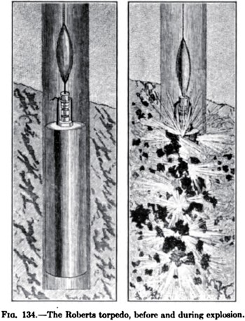 Diagram of a torpedo invented by Edward A. L. Roberts.